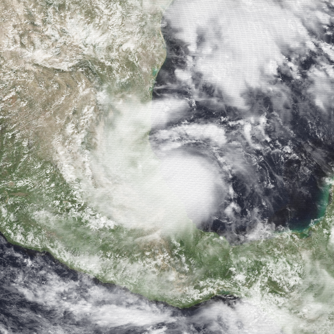 Hurricane Debby at peak intensity shortly before making landfall in southwestern Mexico on September 2, 1988